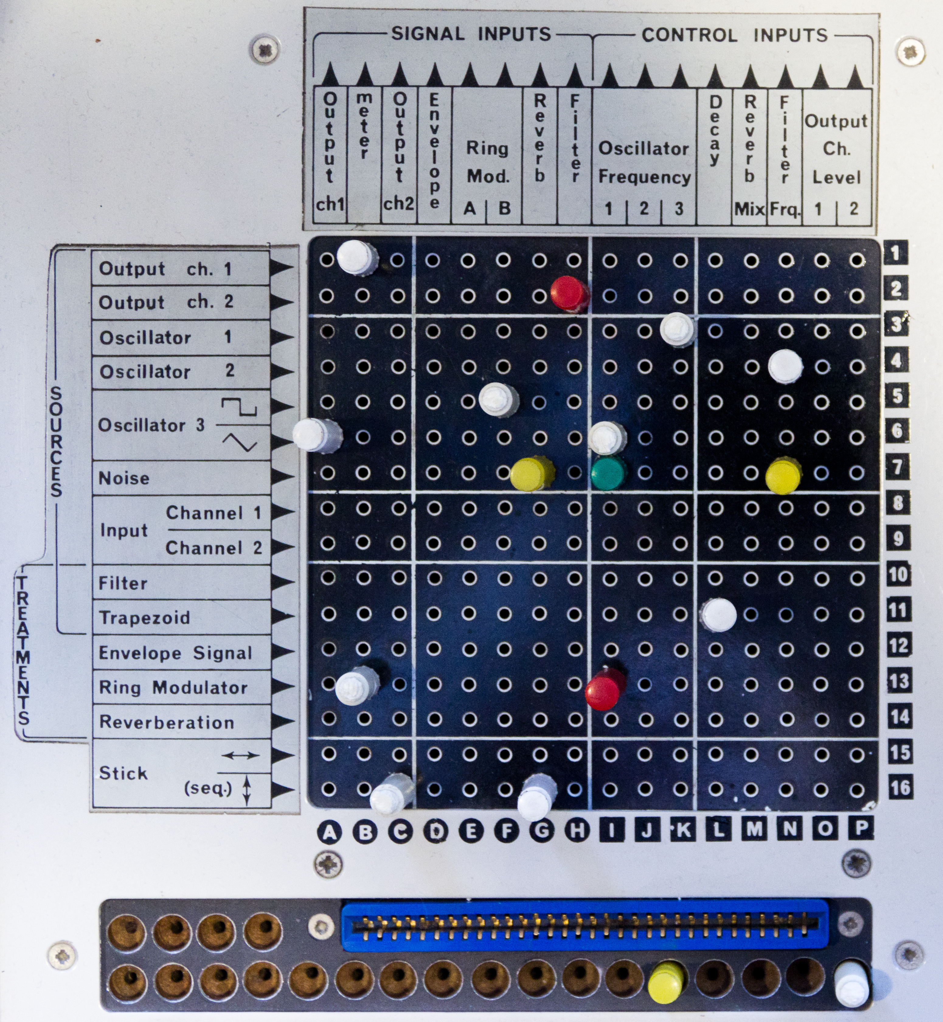 Routing matrix of an EMS VCS3 synthesizer, taken at the Musikinstrumentenmuseum in Berlin